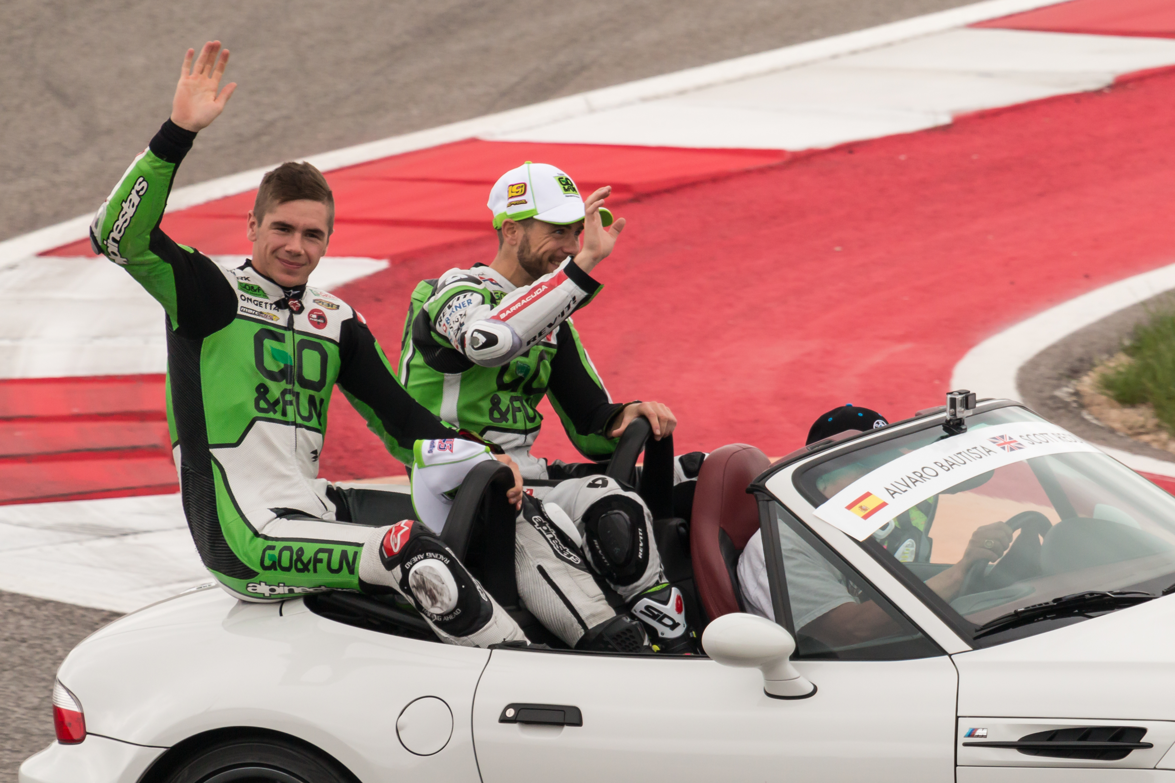 Bautista and Redding